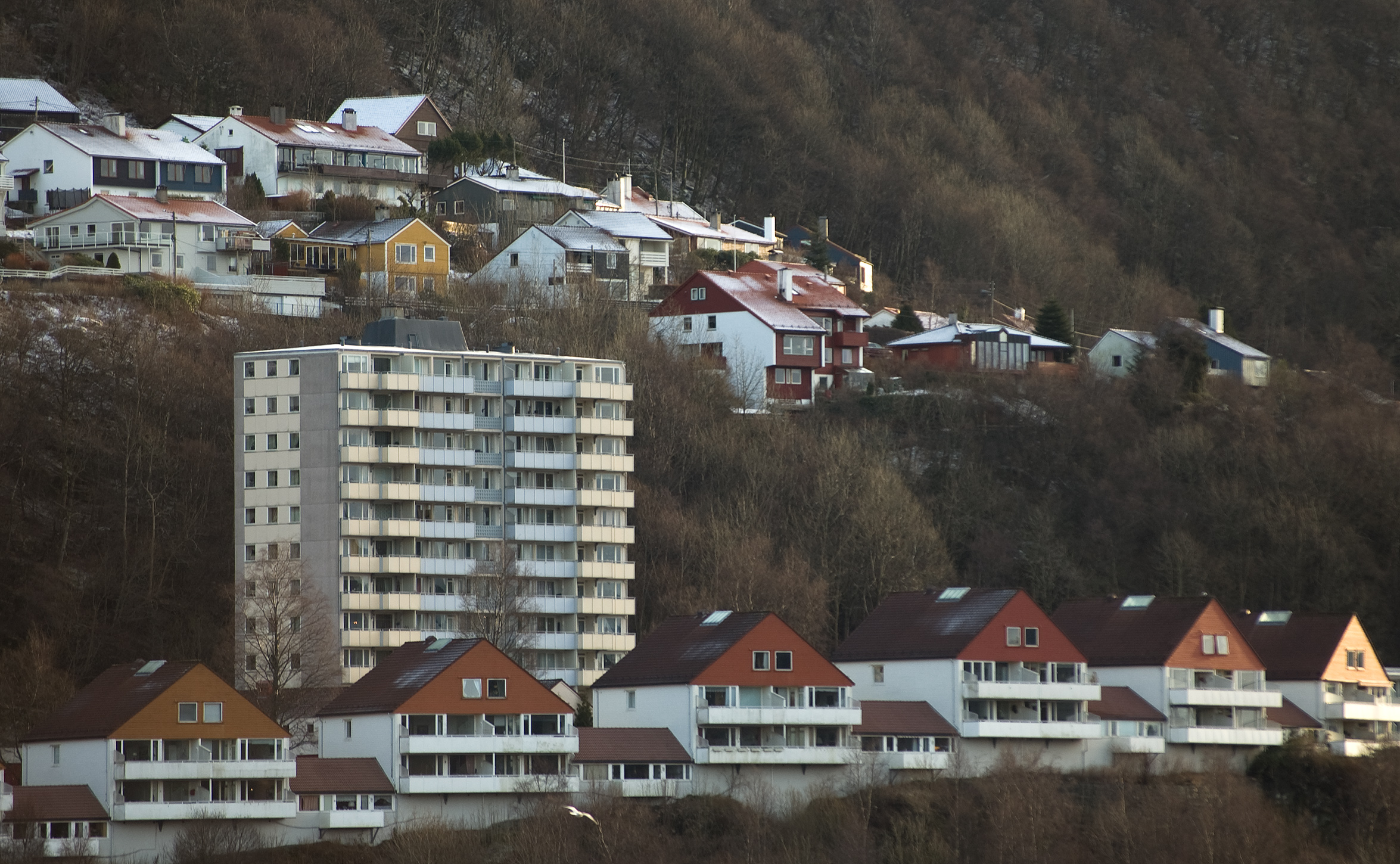 Houses at Landås in Årstad borough in Bergen, Norway.